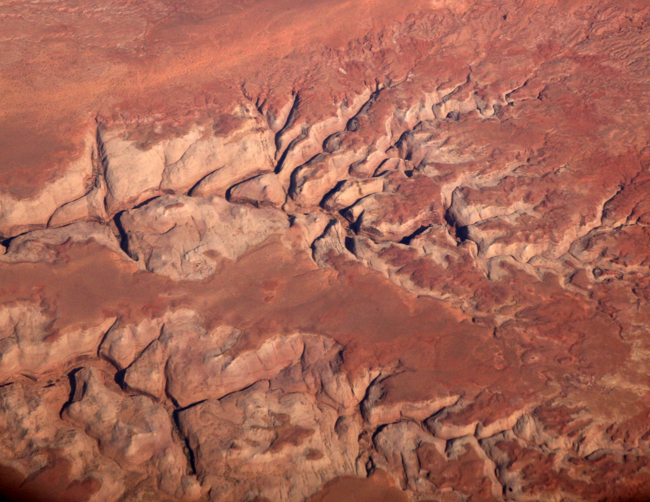 Upper Robbers Roost Canyon, and the South Fork of the canyon, both said to be a one-time hiding place of Butch Cassidy and the Sundance Kid. Deep in the red San Rafael desert of central Utah.